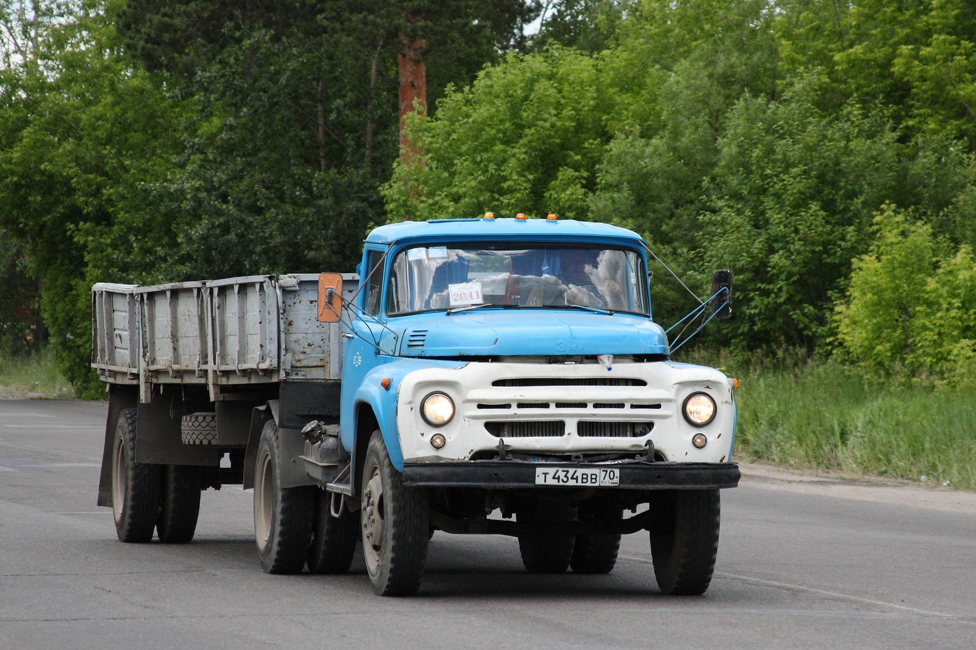 ZiL-130V in Seversk, Tomsk oblast, Russia